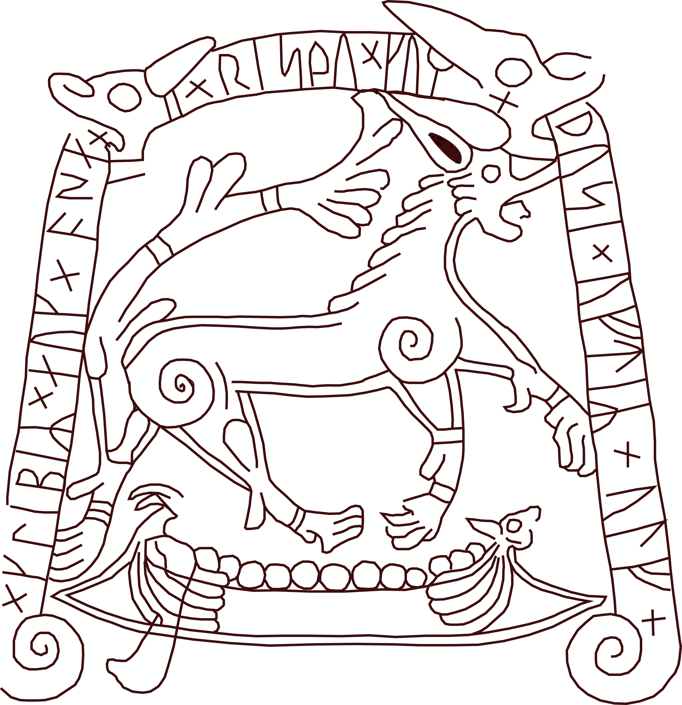 Tullstorp runsten från 980-talet. Bilden frilagd.